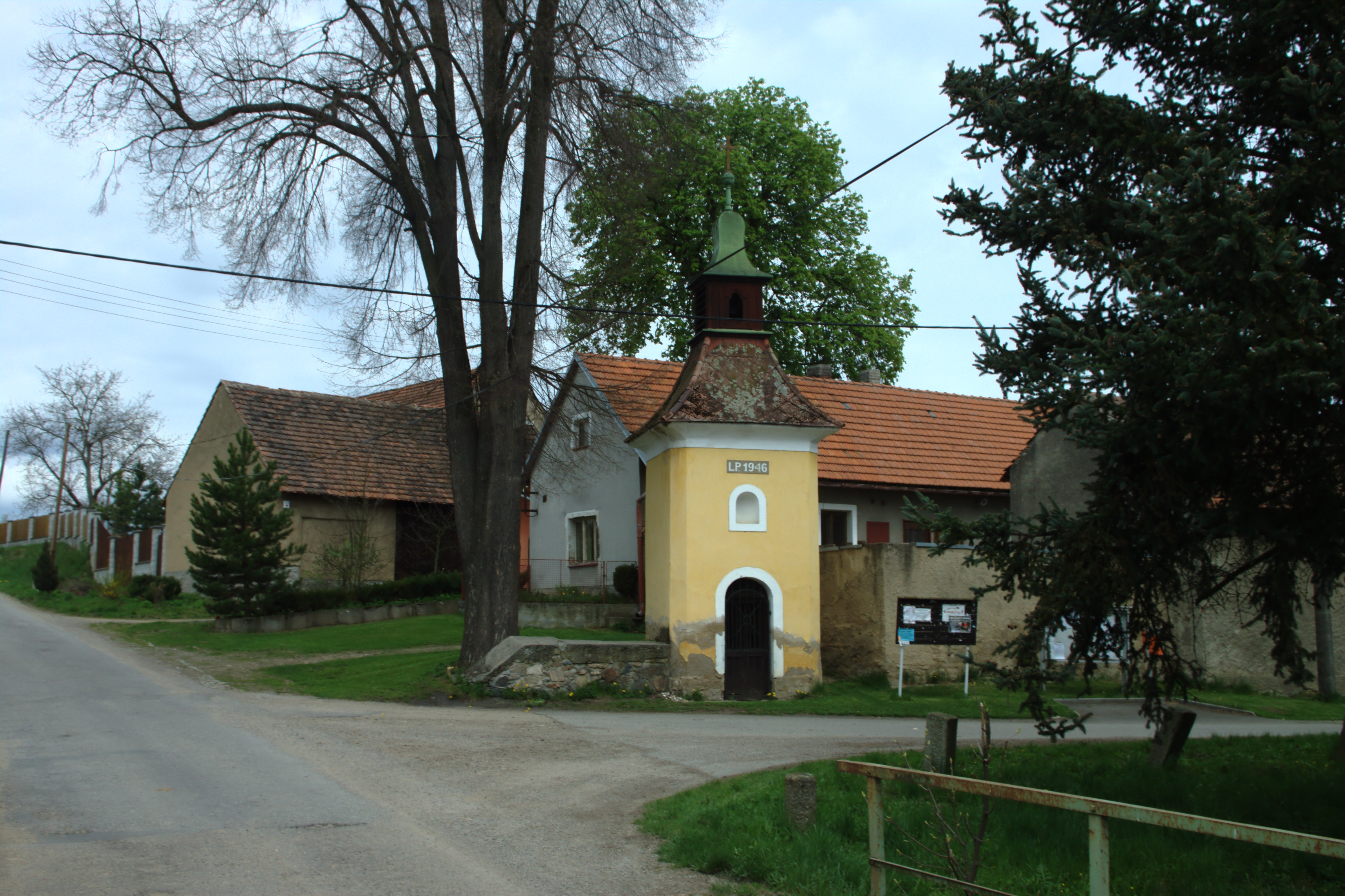 A chapel in the village of Myslíč in Benešov District, Central Bohemian Region, CZ